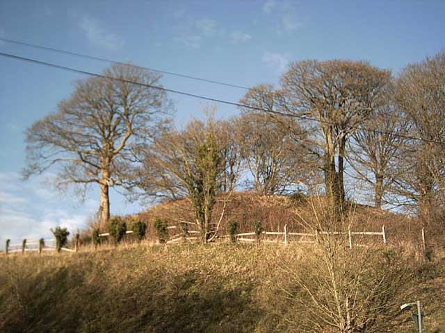 Photograph